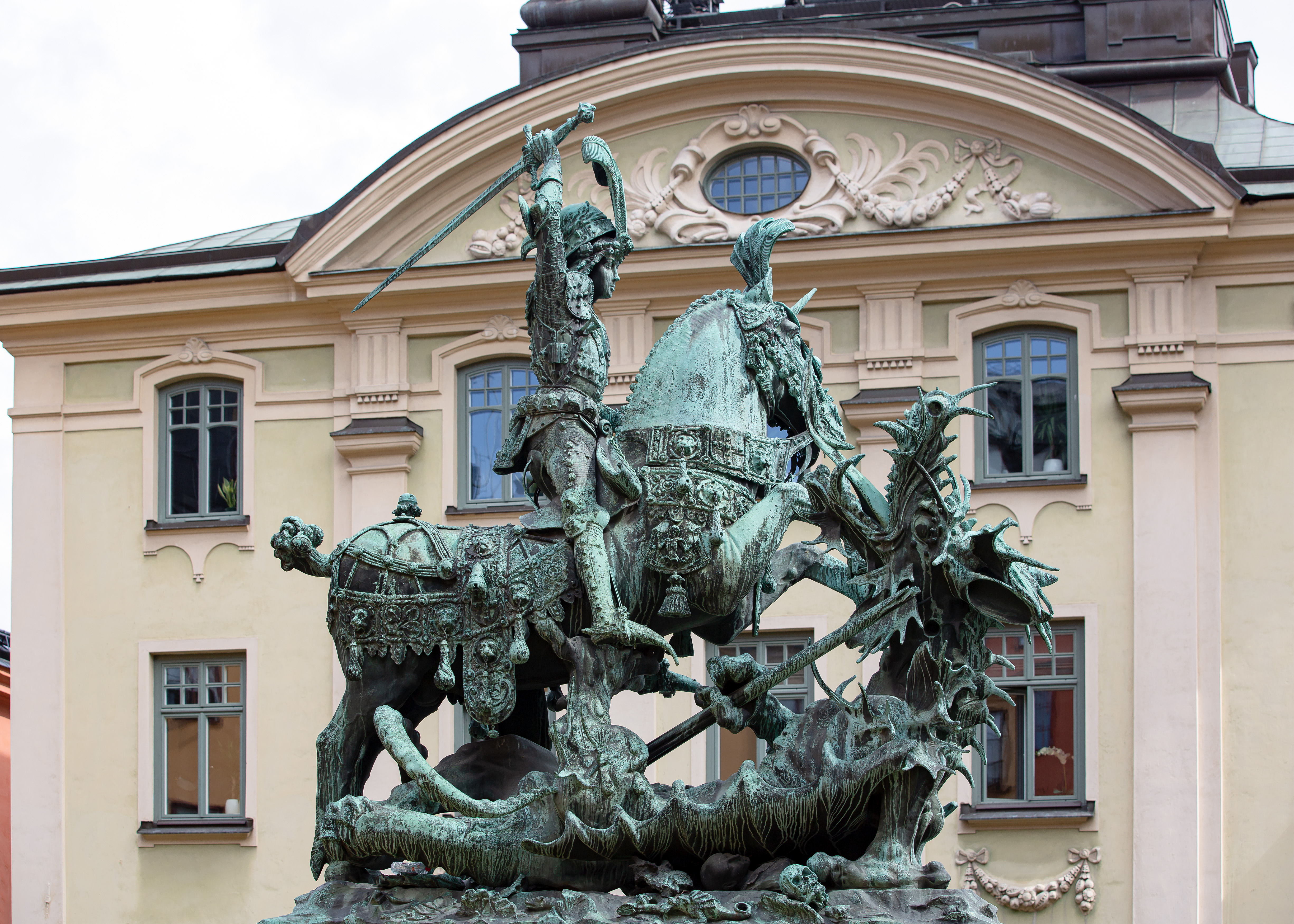 Sankt Göran och draken at Köpmantorget in Gamla stan, Stockholm, Sweden.